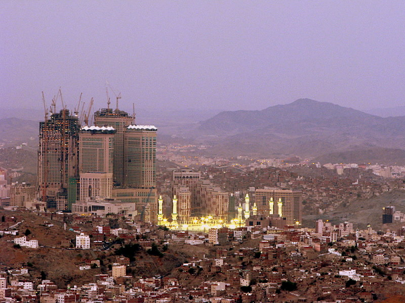 Hira Mağarasından Mekke ve Kabe